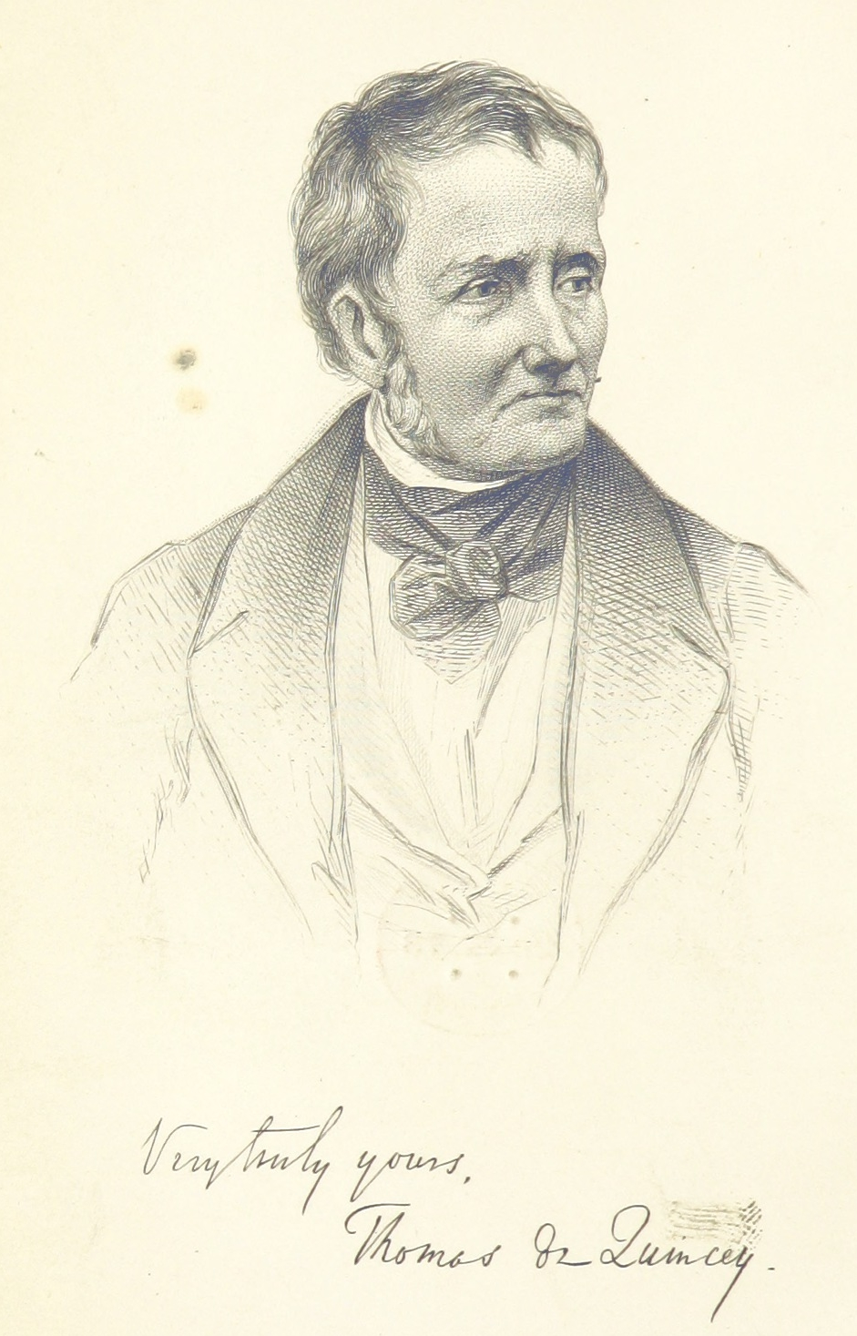 Portrait of Thomas DeQuincey